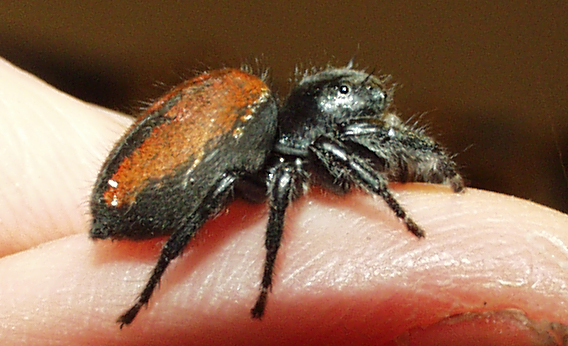 Phidippus johnsoni (?) 18 mm. body length, female. These spiders are quite large for Salticidae (jumping spiders). Their red coloration and relatively slow speed to escape may make them attractive to children. Like other Salticidae they are capable of giving defensive bites that are about as painful as a bee sting. This particular spider was quite easy to handle and did not even make a threat display. Ordinarily, Salticidae will bite only upon being pinched or otherwise severely provoked. Photo January 2006 by Patrick Edwin Moran.